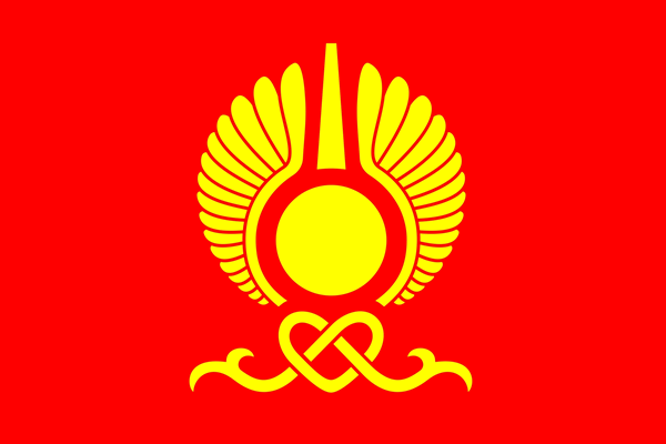 Flag of Kyzyl, Tuva, Russia